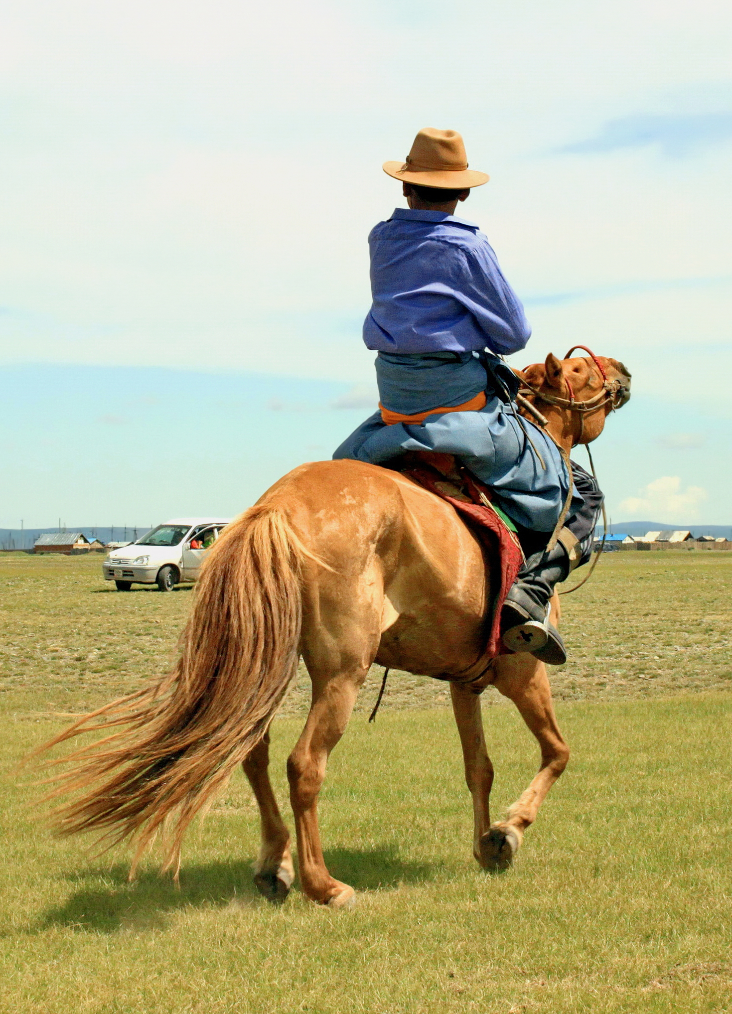 Horse rider on the steppe at the local Naadam festival. Kharkhorin, Övörkhangai Province, Mongolia.